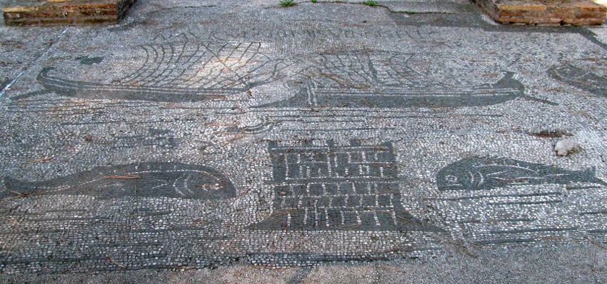 Statio 10, Square of Corporations (Ostia antica) - Inscription : CIL XIV, 4549, 10 : NAVICVLARI MISVENSES HIC - Two sailships, two dolphins, a tower (or grain measure ?)